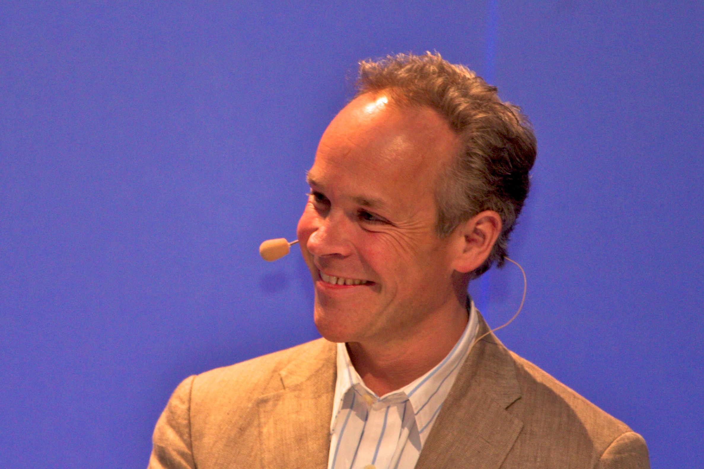 Jan Tore Sanner, Norwegian conservative politician.